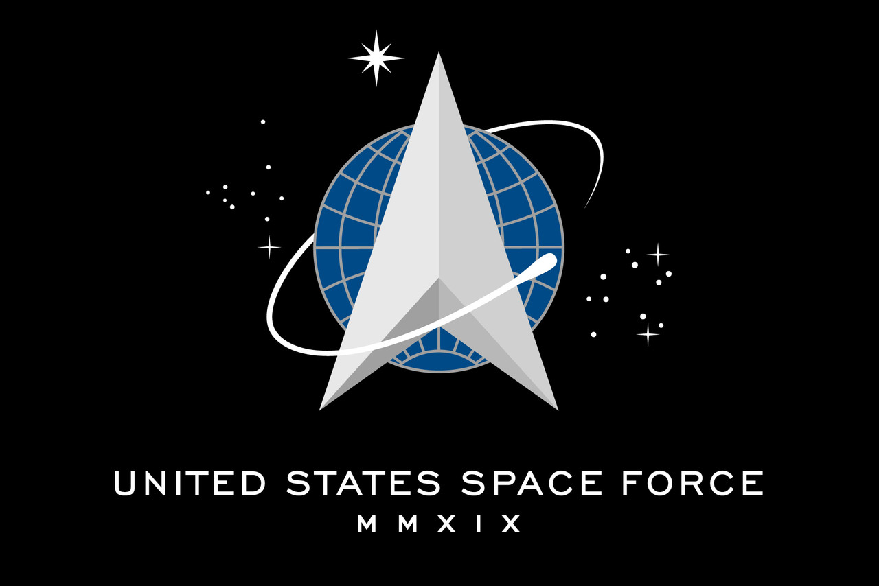 This is the official flag of the sixth United States Armed Services branch, the United States Space Force.